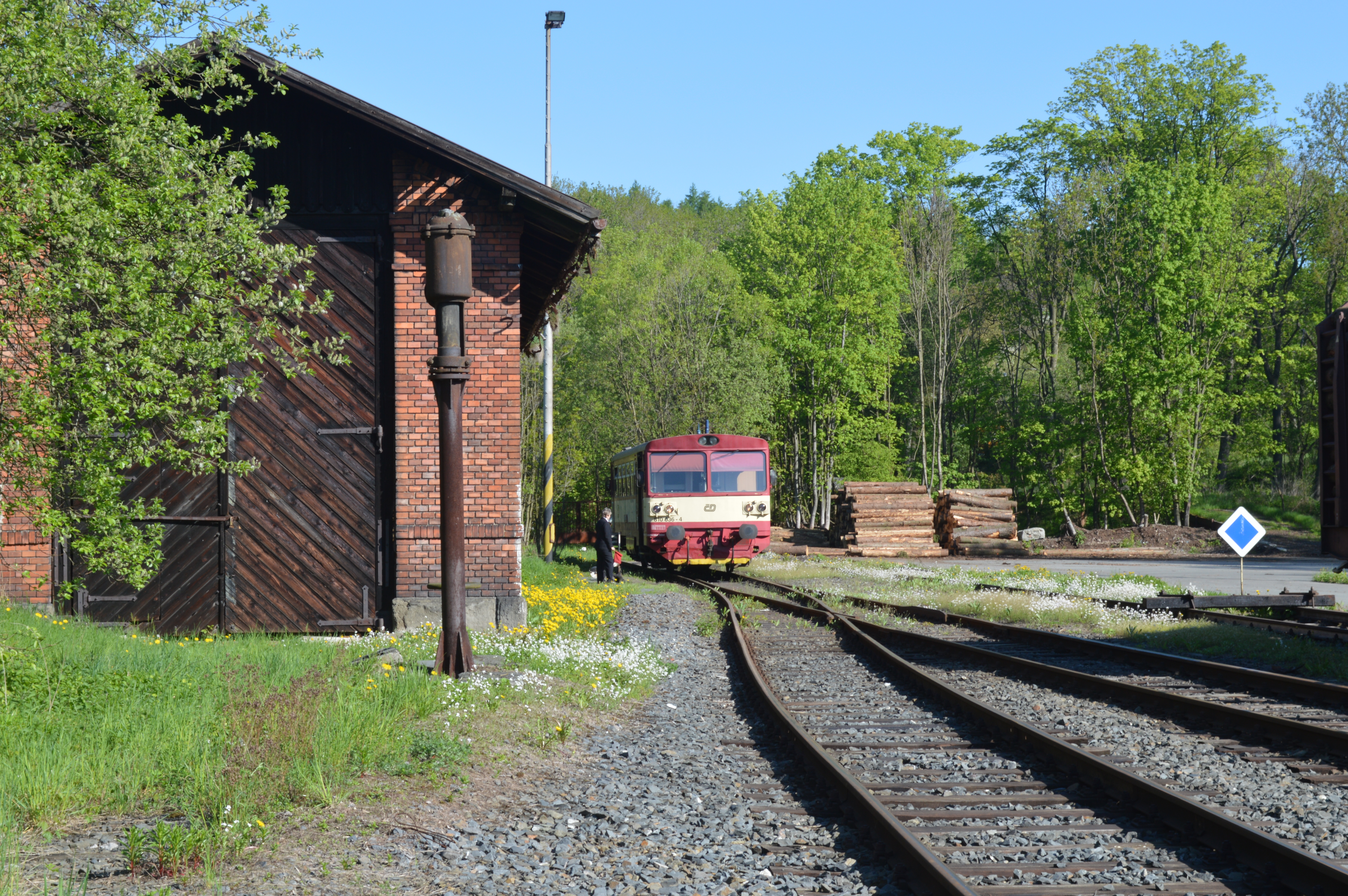 2013 Czech Republic Trip Day Five A sight becoming a lot more uncommon in the Czech Republic. Occasionally single railcars haul a trailer, thus necessitating a run round at the end of the journey. Seen here at Budišov nad Budišovkou, the conductor is assisting by operating the point levels to enable 810.036 to run round its train. After the run round, the train had a generous hour layover on before working Os13307, 09:29Budišov nad Budišovkou to Suchdol nad Odrou on 15 May 2013. Three dead end branches radiate out from Suchdol nad Odrou on the main line from Ostrava to Přerov. Photographs taken at all three terminal stations can be seen next to this in the photostream.